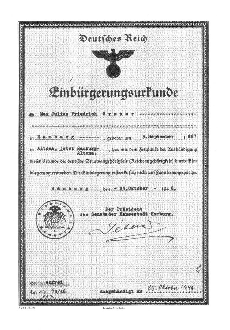 Max Brauers certificate of naturalisation, issued in 1946 by Rudolf Petersen, President of Senat Hamburg/Germany.